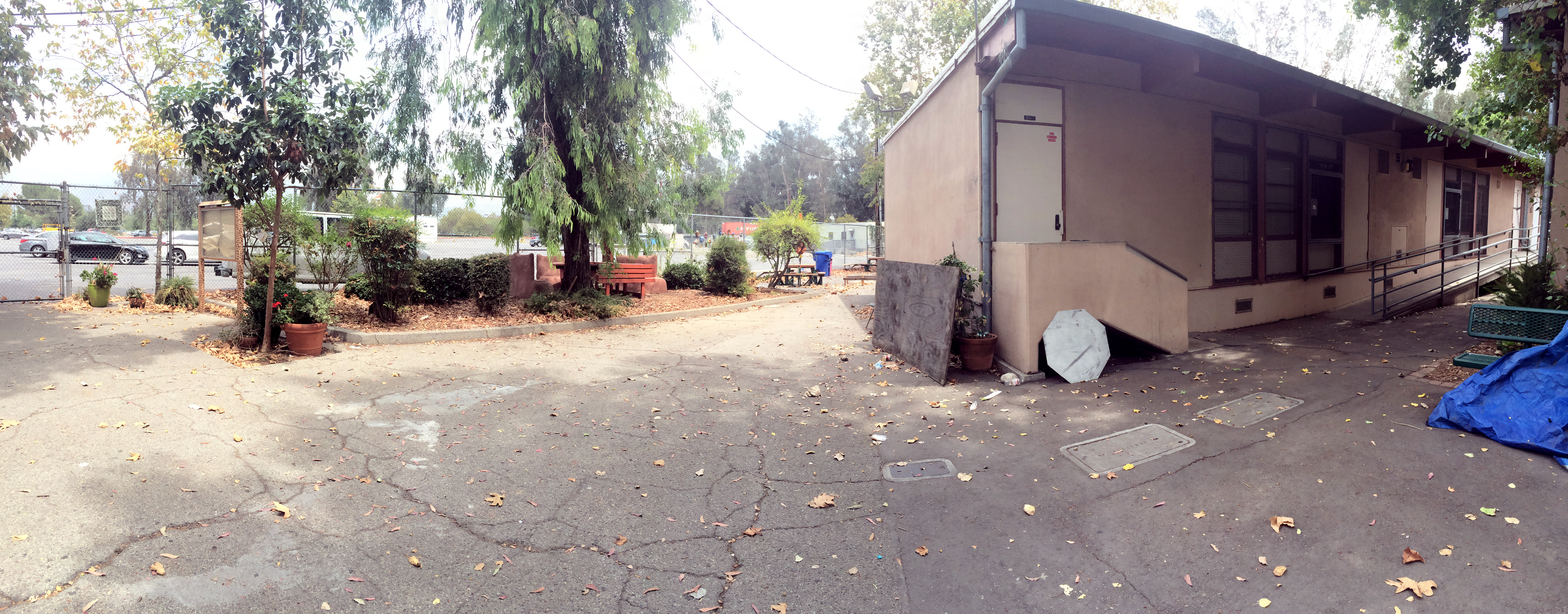 Photograph of the North Hollywood High School Zoo Magnet Center Campus